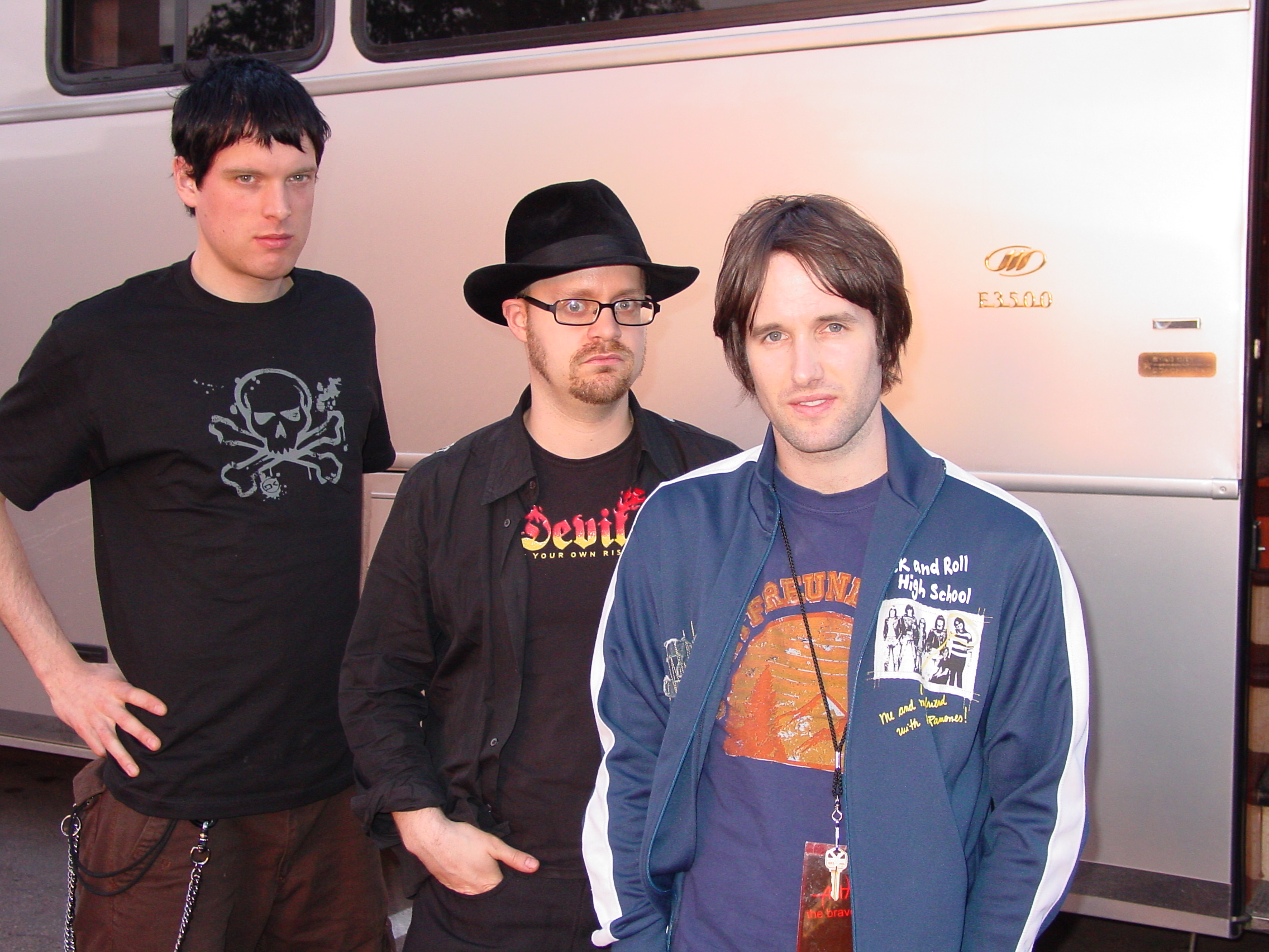 Subject: Ash - Mark, Rick, Tim, Place: Tempe, Arizona, USA, Photographer: Andwhatsnext (Original digital photograph) Credit: Copyright (c) 1987 by Nancy J Price